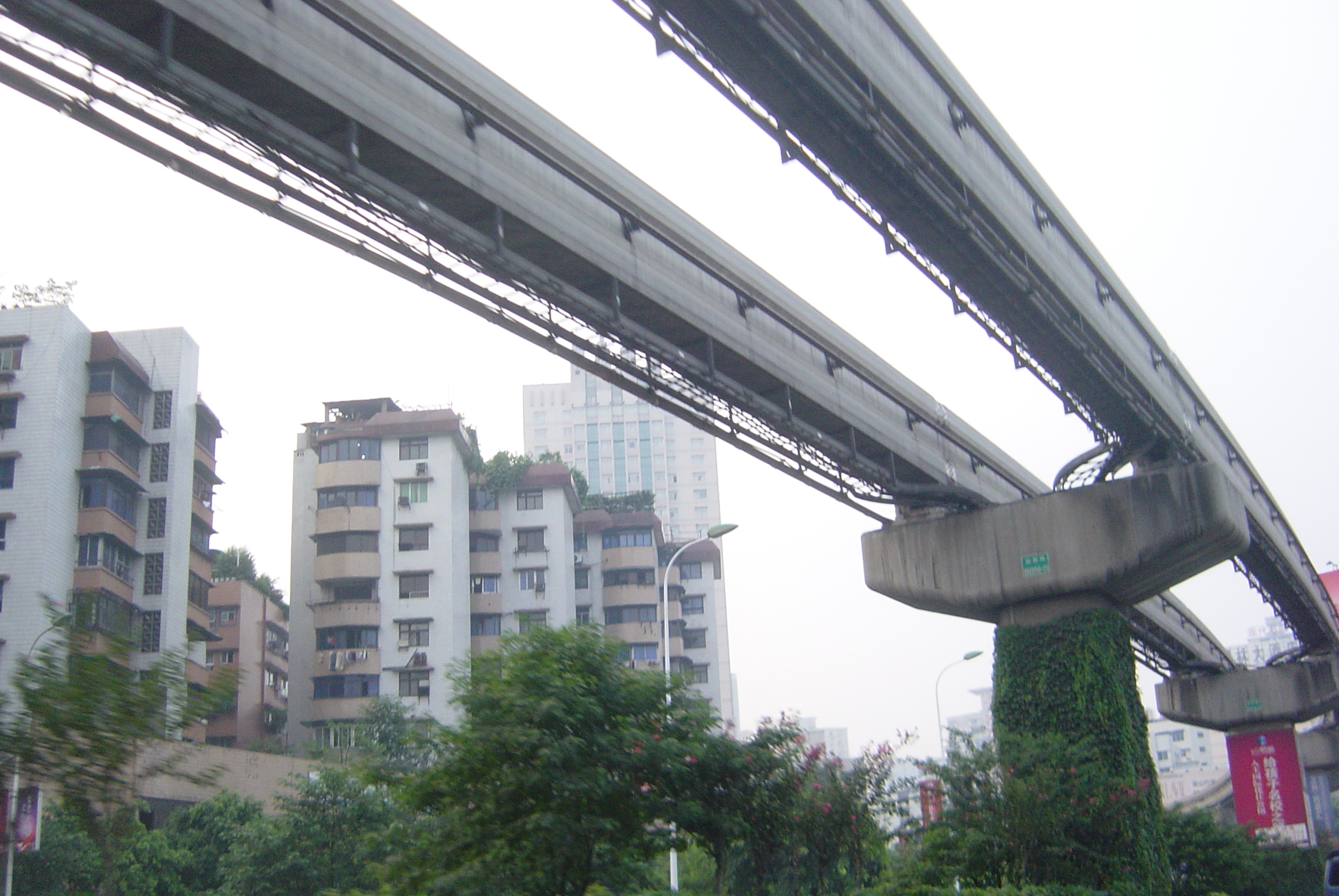 The light rail in Chongqing city. This photo has been taken by Mr. Chen Hualin.